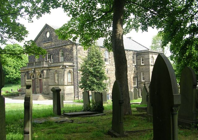 Salendine Nook Baptist Church, Moor Hill Road, Salendine Nook, Huddersfield, West Yorkshire, seen from the southwest